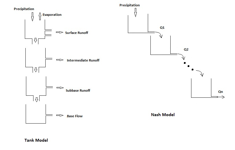 Graphical representation of Tank and Nash models